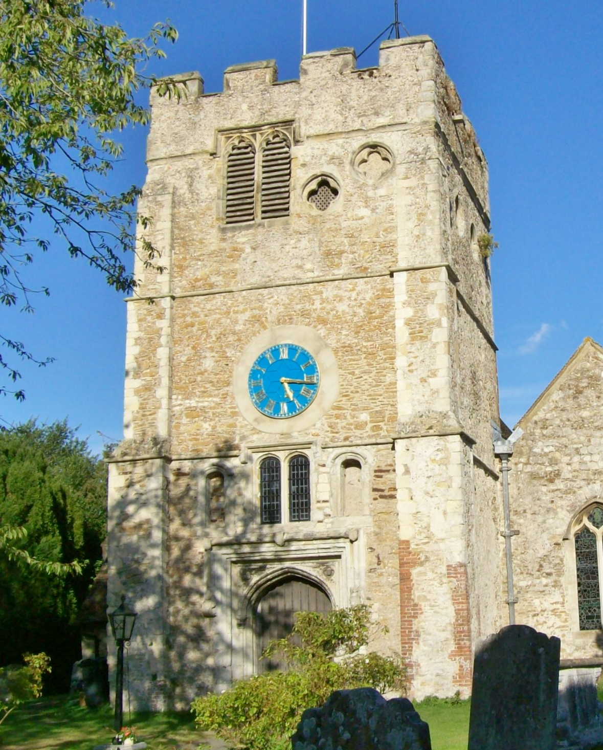 St Peter and St Paul, Appledore, the tower